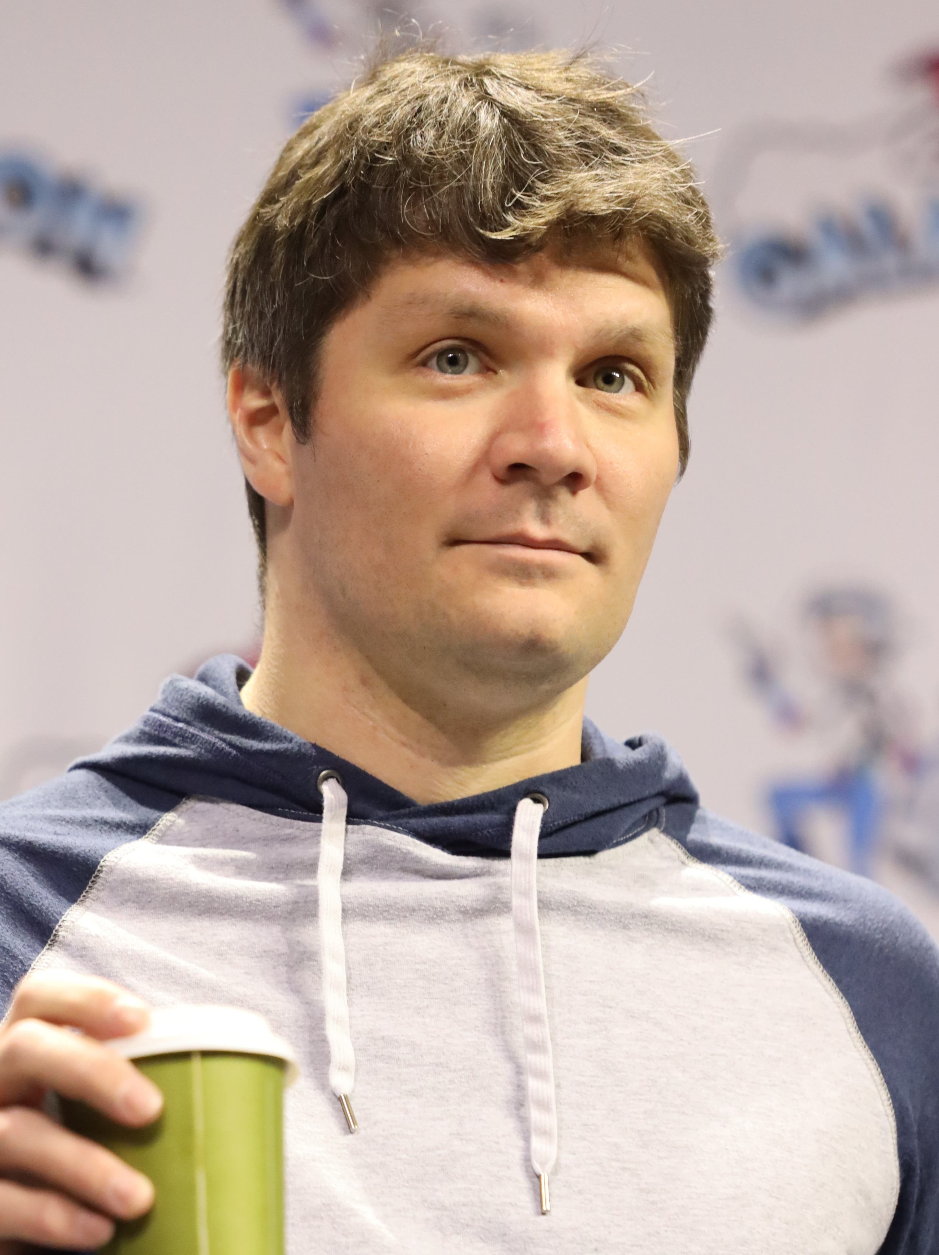 Clifford Chapin at GalaxyCon Richmond in 2020